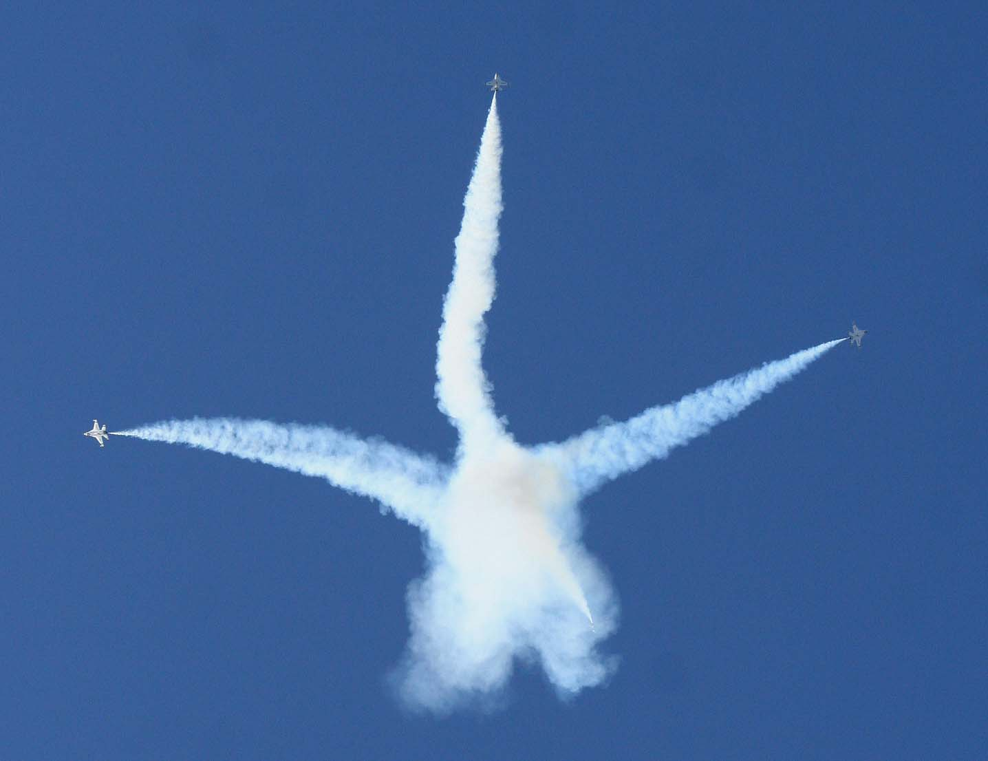 "Bomb burst" formation of United States Air Force Thunderbirds at the dedication of the United States Air Force Memorial located in Arlington County, Virginia.